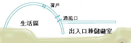 来自英文WIKI Image:Igloo see-through sideview diagram.png Image:Igloo see-through sideview diagram.png